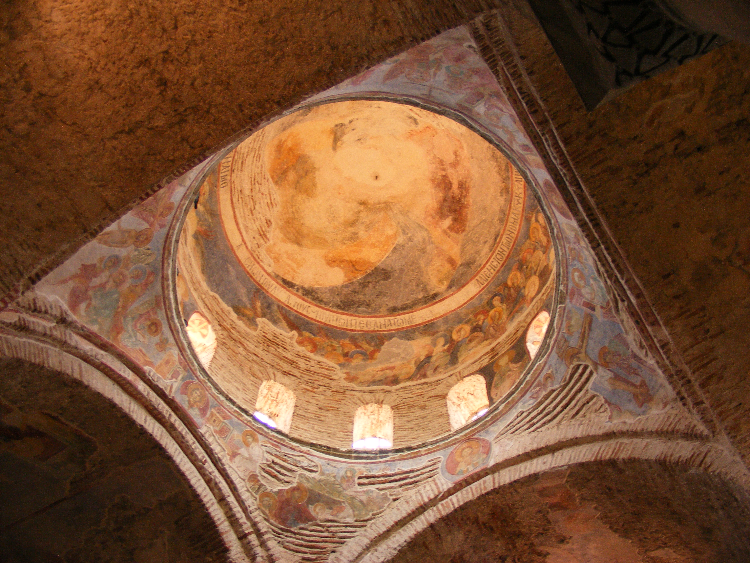 Inner view of the dome of Hagia Sophia, Trabzon